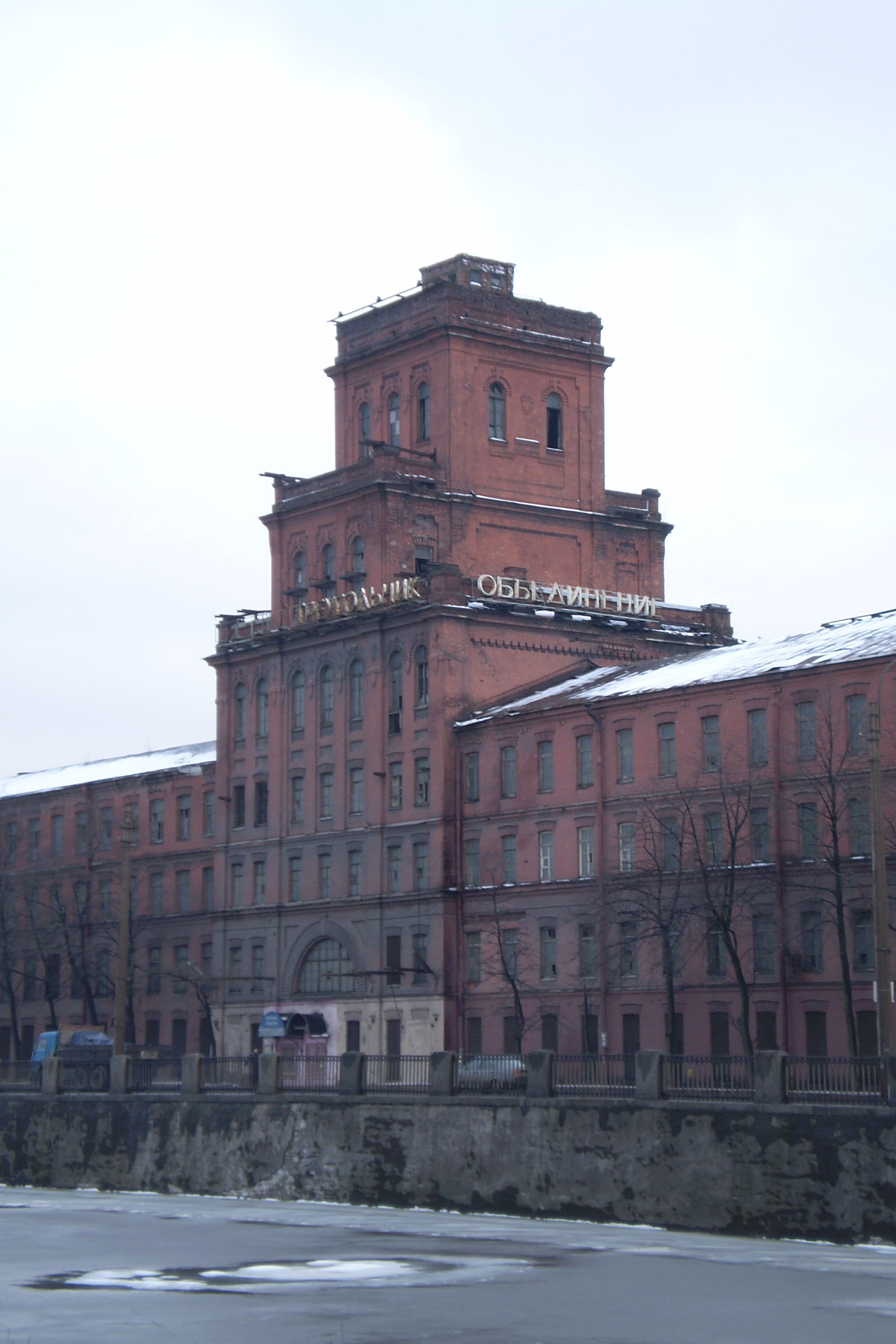 The tower on the «Red Triangle» factory's building at Obvodny Canal's embankment in Saint Petersburg. March 6, 2008.